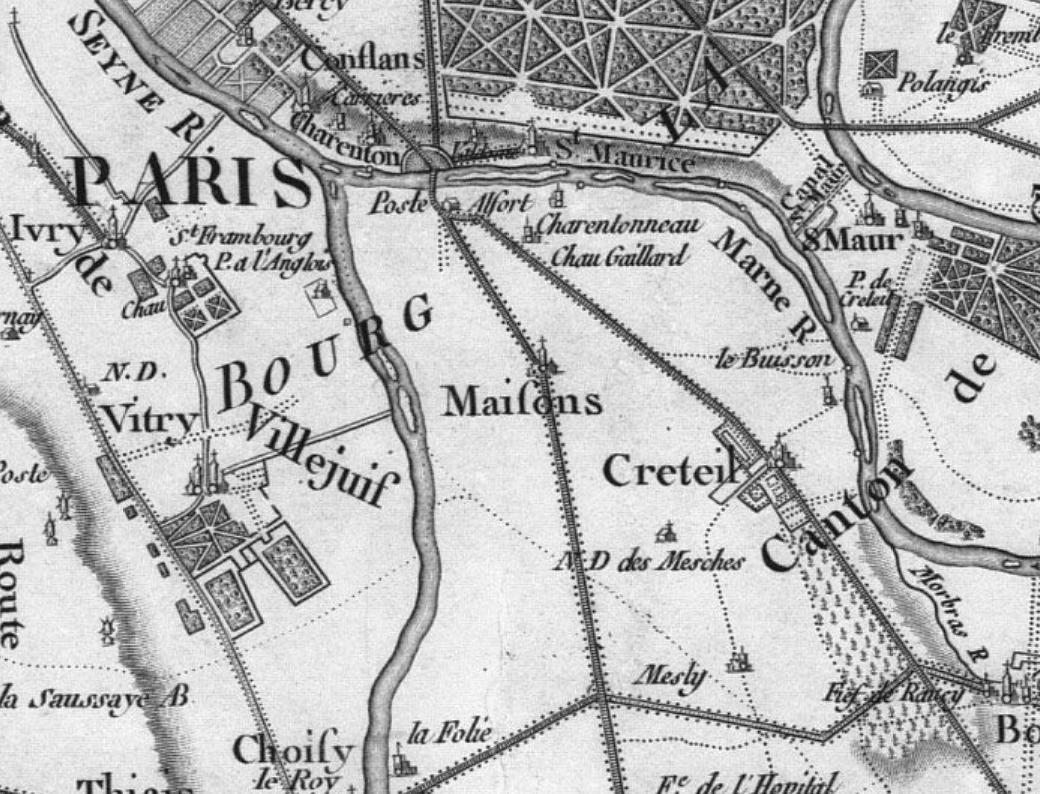 Part of the Cassini Map of France